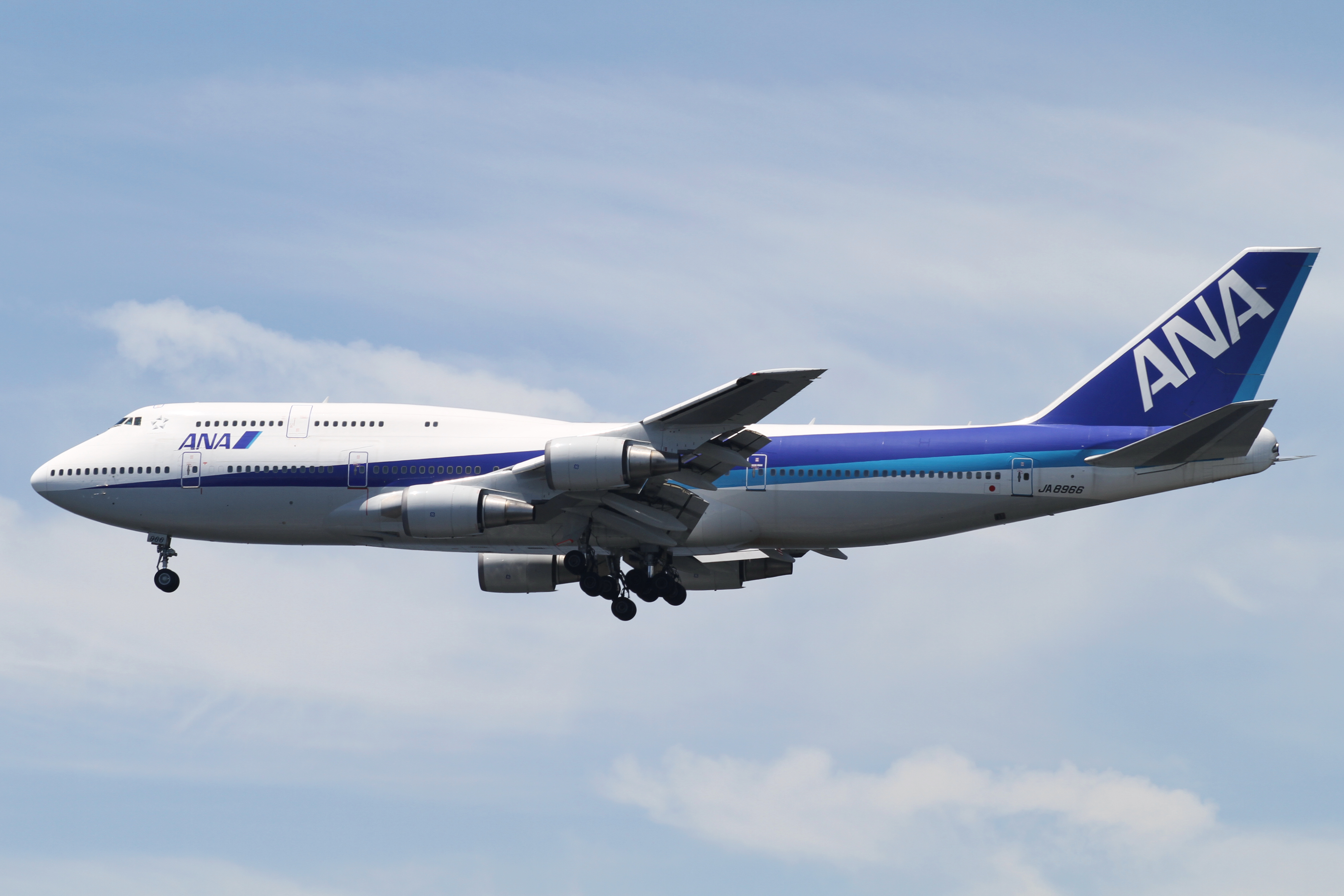 Tokyo International Airport, Boeing 747-481D, c/n:27442, All Nipppon Airways